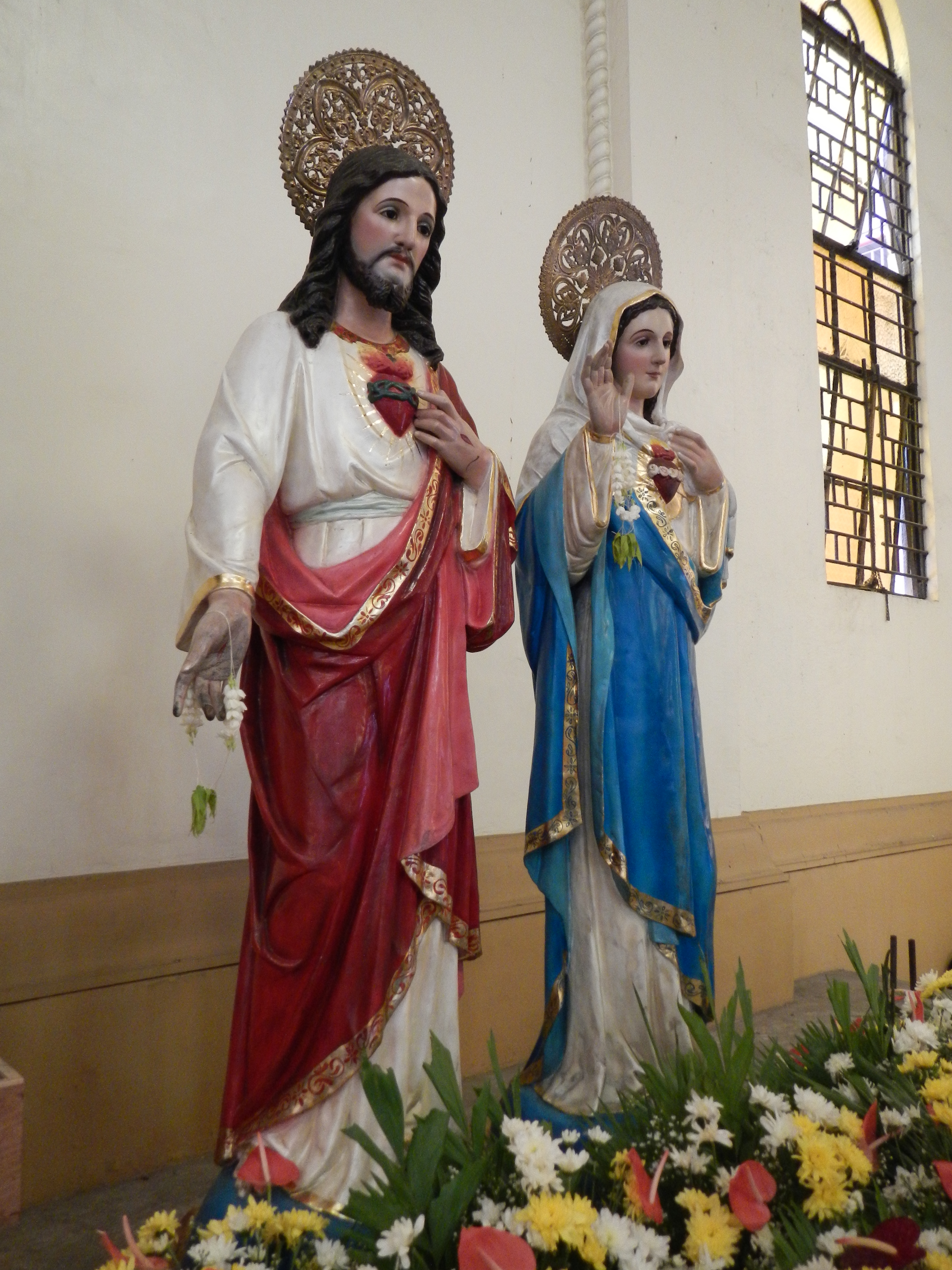 Photos of the First in Philippine History, landmark, historical and momentous: National Consecration to the Immaculate Heart of Mary, 8 June 2013 Consecration to the Immaculate Heart of Mary 8 June 2013 [1] Cardinal Tagle: No corruption in a country entrusted to MaryCardinal Tagle: No corruption in a country entrusted to MaryTagle leads prayer vs corruption, lifts PH to Mary’s heart Saturday, June 8th, 2013 [2] CBCP Circular Letter No. 01 – s. 2013: Celebration of the National Consecration to the Immaculate Heart of Mary on June 8, 2013.[3] + JOSE S. PALMA, D.D.[4] - "Bayang Sumisinta Kay Maria" ‘Act of Consecration to Mary,’ Marian recollection on June 8 June 2nd, 2013 Observance: Consecration of the Philippines to the Immaculate Heart of Mary Consecration to the Immaculate Heart of Mary June 8, 2013 [5] [6] THE Act of Consecration to the Immaculate Heart of Mary will be held in all the cathedrals, shrines, and parishes all over the country at 10 a.m June 8, 20123. Tagle, may panawagan sa mga Pilipino The National Consecration of the Philippines and the Catholic Faithful to the Immaculate Heart of Mary as "Isang Bayang Sumisinta kay Maria" (Pueblo Amante de Maria) took place on June 8, 2013, the Feast of the Immaculate Heart of Mary. It was led by Luis Antonio Tagle[7] (Latin: Aloysius Antonius Tagle